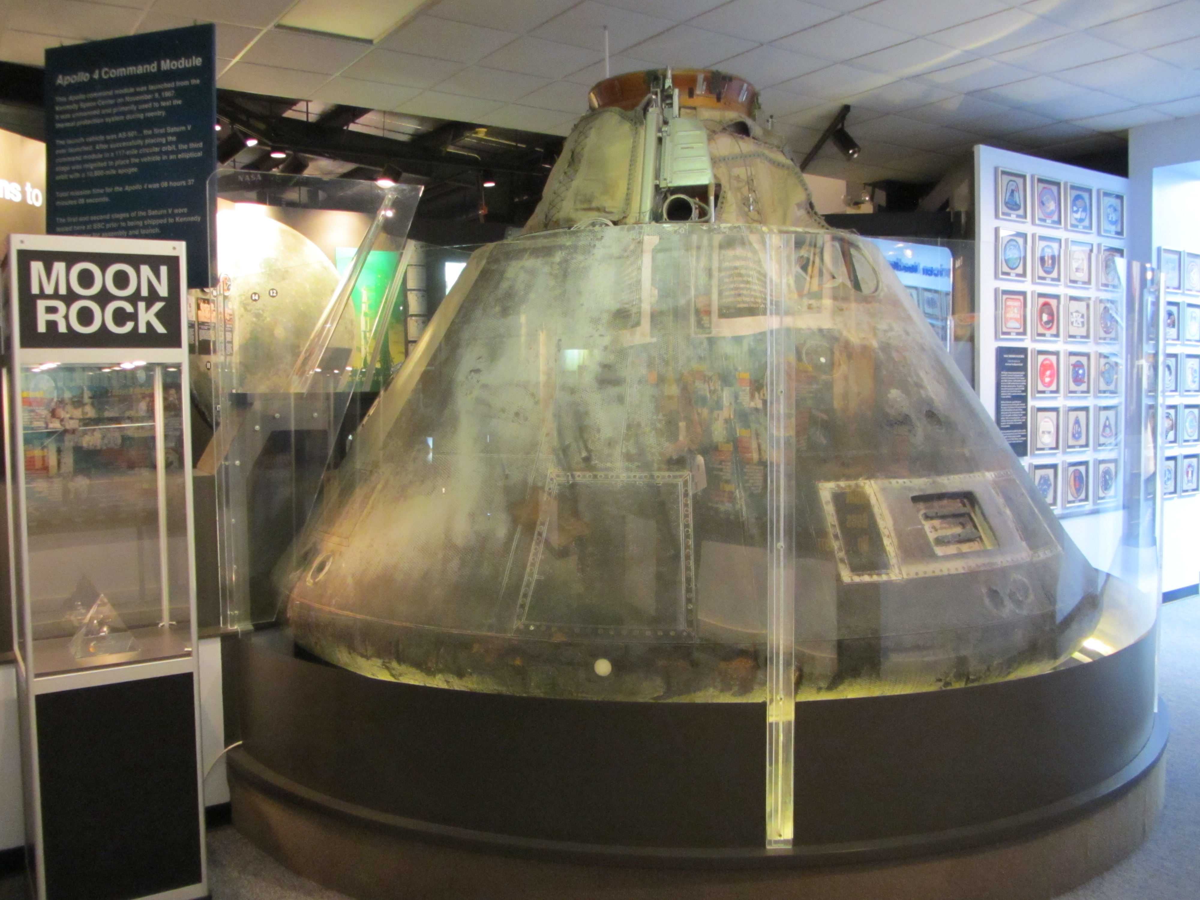 CSM-017 Apollo 4 AS-501 Stennis Space Center, Port St. Louis, MS